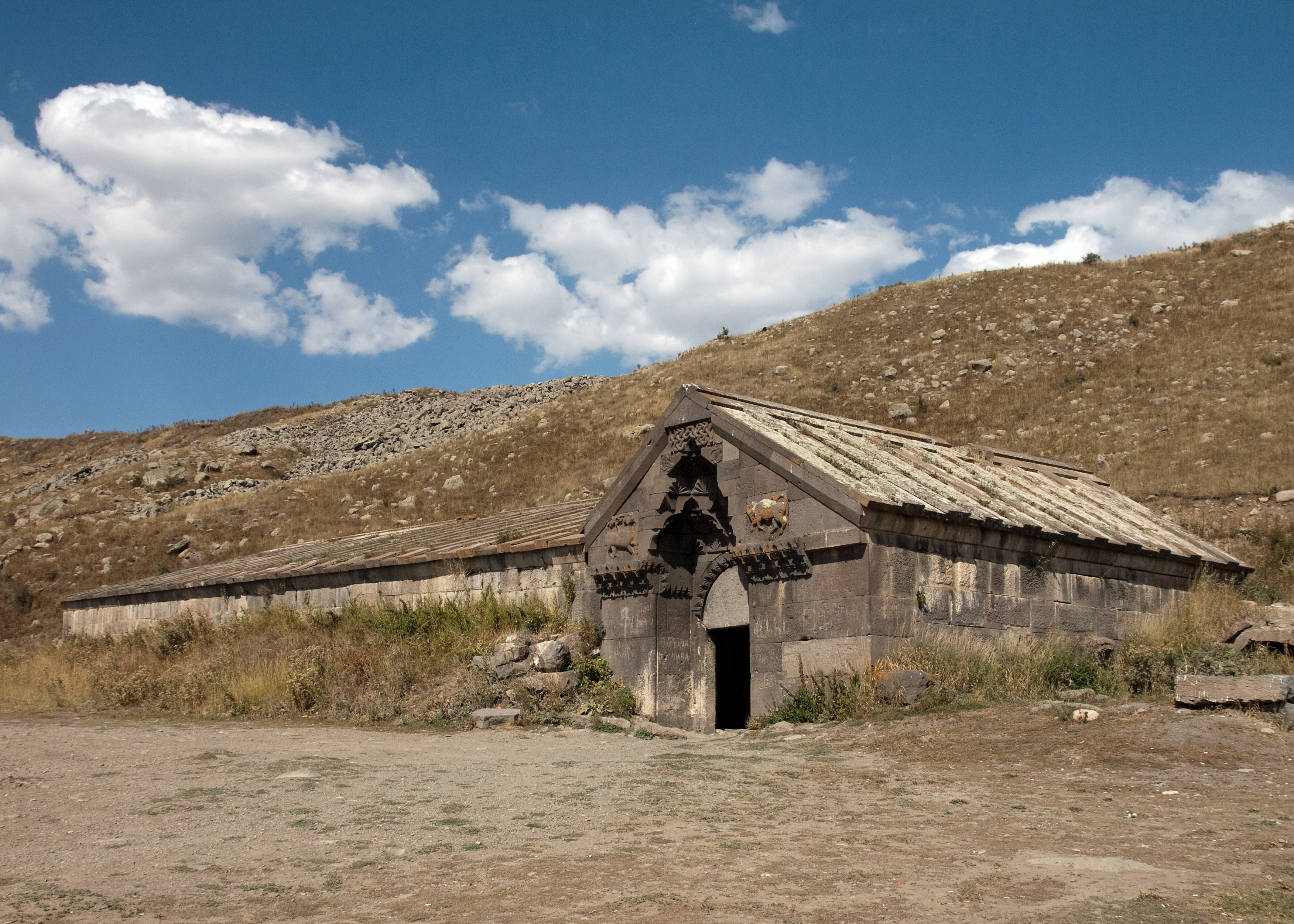 Armenia - Day 5 - 22 September 2010. Just below the summit of the Selim Pass on the south side. Above the doorway is a carving of a Griffin and a Lion. The inscription is Persian (in Arabic). It was built by in 1332 by Chesar Orbelian in the reign of Khan Abu Said II and forms part of the old Silk Road. 7/1.2